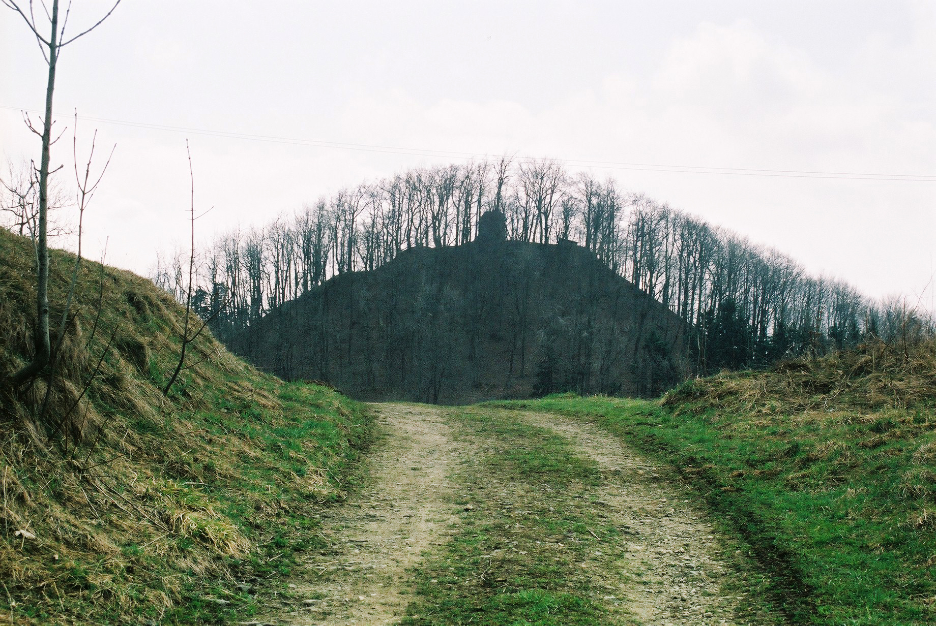 Ruins of the Castle Homole near Kłodzko, Poland. The castle hill; an outline of the tower stands out between the trees.